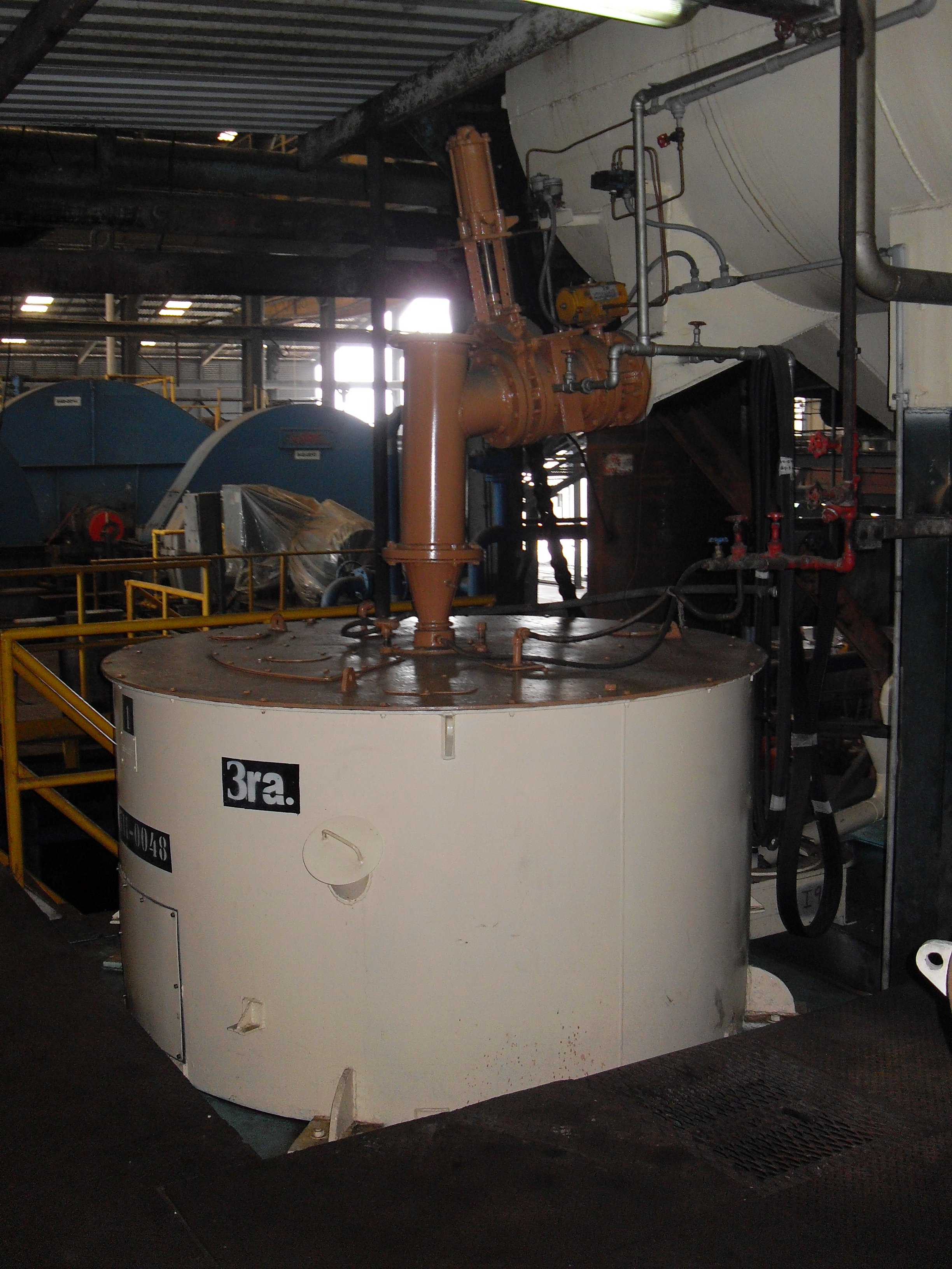 continuous sugar centrifuge from BMA Germany of the K 2300 type.